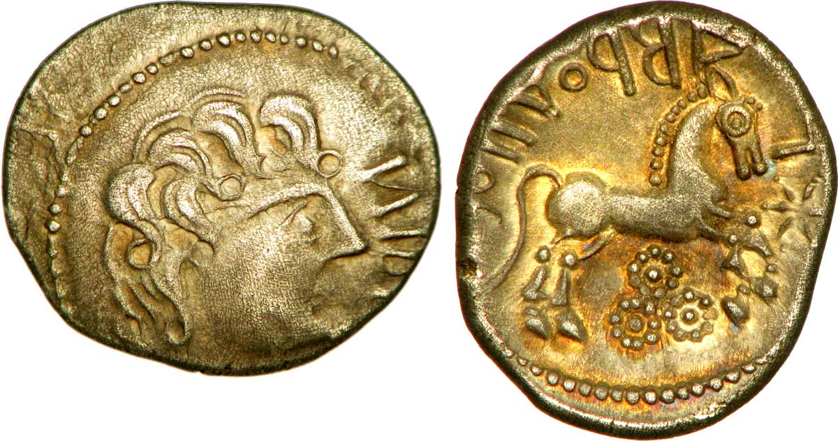 Denier au cheval frappé par les Suessions Date : c. 60-50 AC.